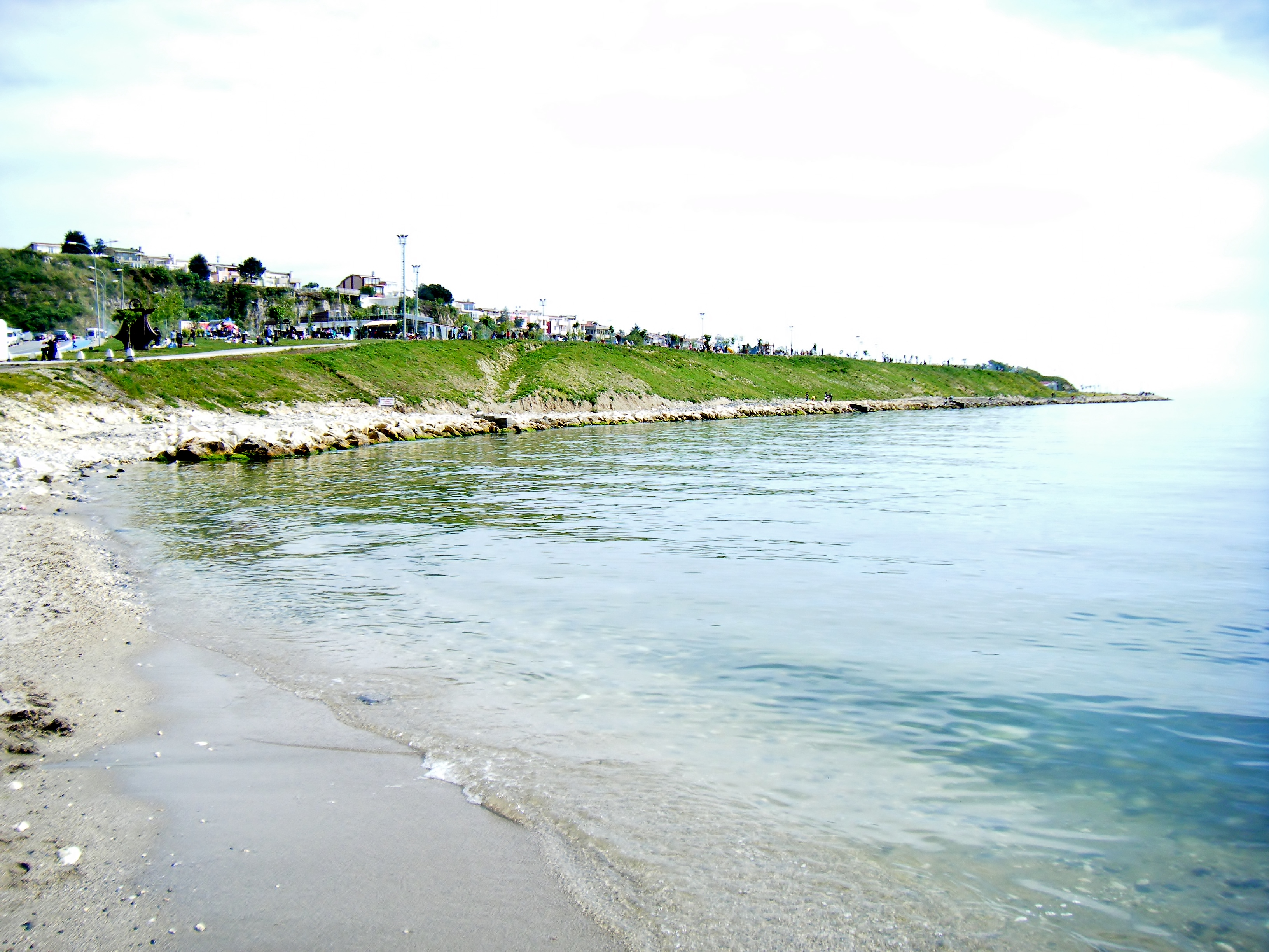 beylikdüzü beach